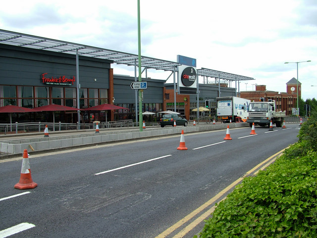 Roadworks on Parkway, Bury St. Edmunds The building on the left houses several restaurants and the multiscreen cinema. Beyond that we see the multi-storey car park, with clock tower. I believe the works are raising the central reservation in an attempt to stop people crossing where they want to, and force them to use the inconveniently placed official crossing.